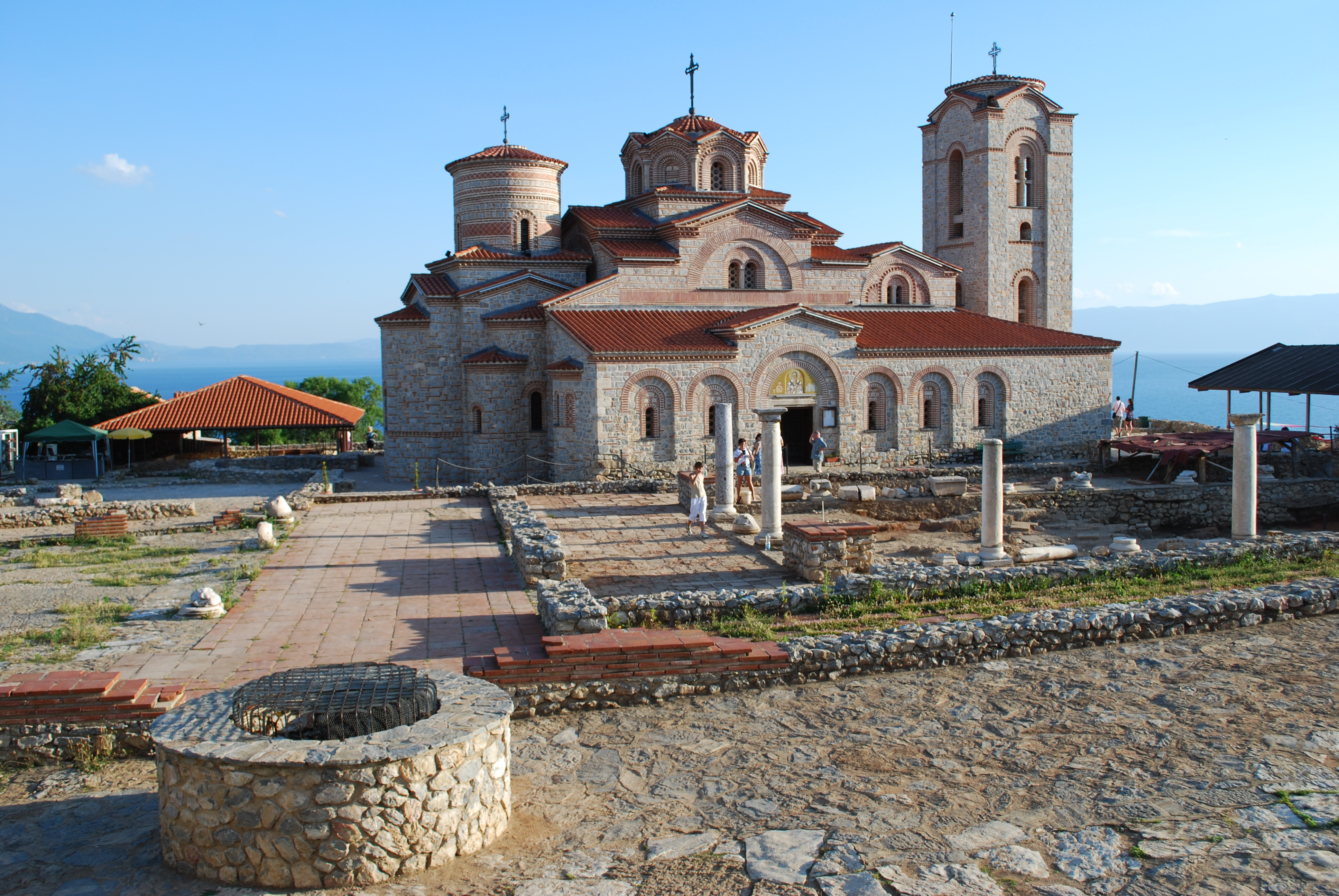 The Church of St. Kliment & St. Pantelejmon at Plaošnik in Ohrid, Macedonia